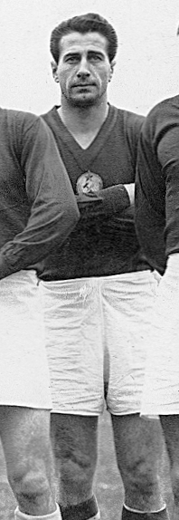 The Golden Team in 1953